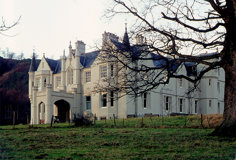 Garth Youth Hostel in 1976, Perth and Kinross